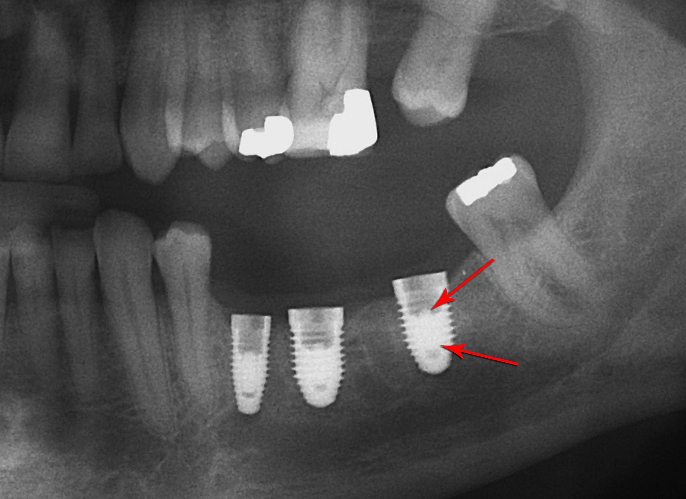 Fracture of abutment screws in 3 consecutive implants due to severe over-torqueing. Screw end marked on last implant with red arrows